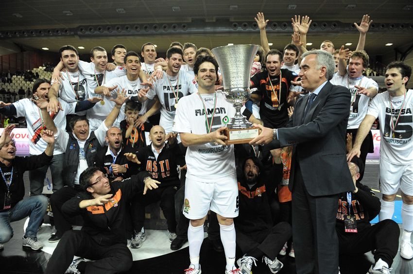 Asti C5 wins the Coppa Italia 2012